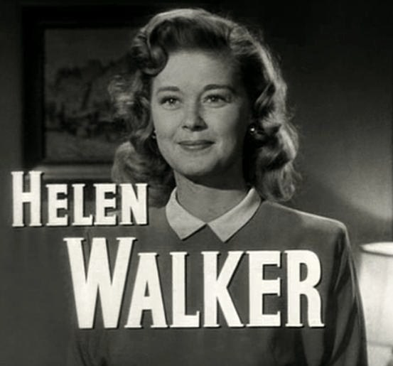 Helen Walker in Call Northside 777 - trailer (cropped screenshot)